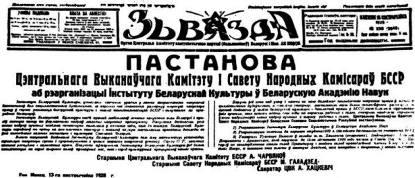 Зьвязда newspaper with the publication about the foundation of the Belarusian Academy of Sciences (1928) Беларуская (тарашкевіца): Газэта «Зьвязда» з публікацыяй пра стварэньне Беларускай Акадэміі Навук (1928 г.)